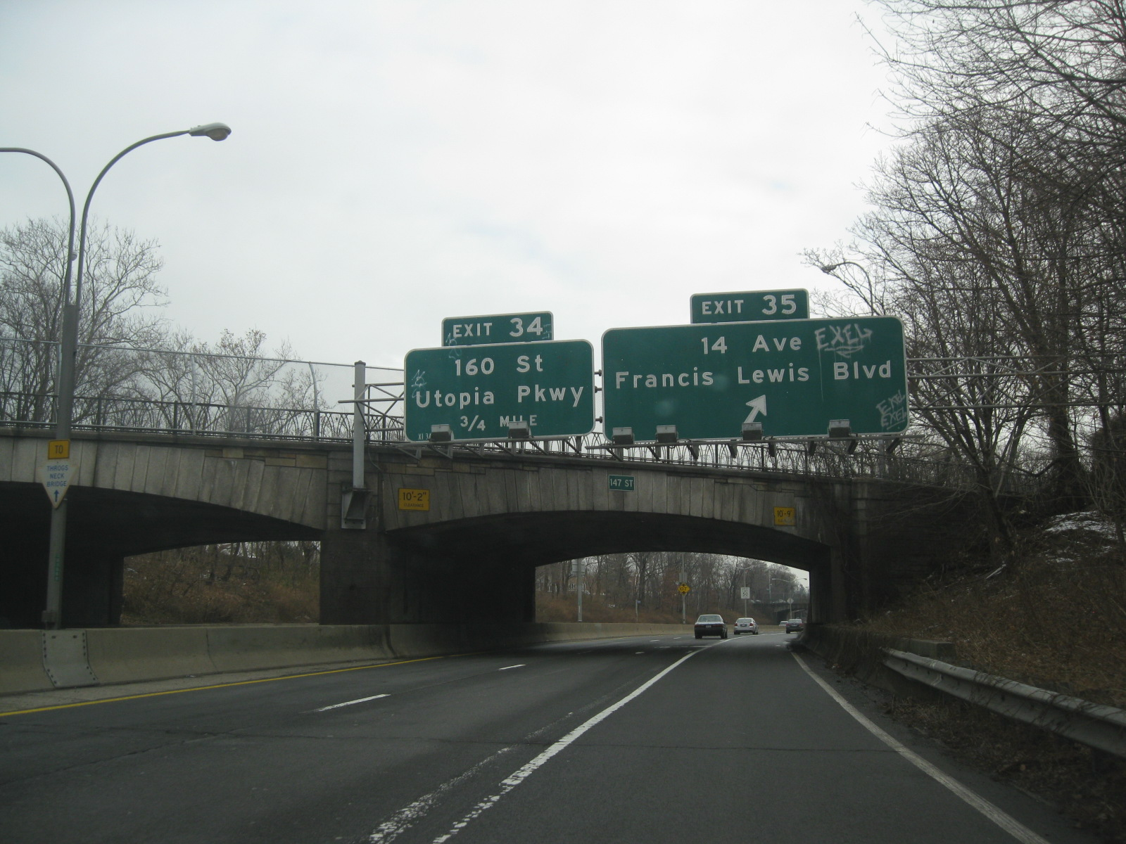 The Cross Island Parkway (NY 907A) southbound at the ramp for exit 35, 14th Avenue and Francis Lewis Boulevard. The bridge crossing 147th Street over the parkway is visible behind the gantry.